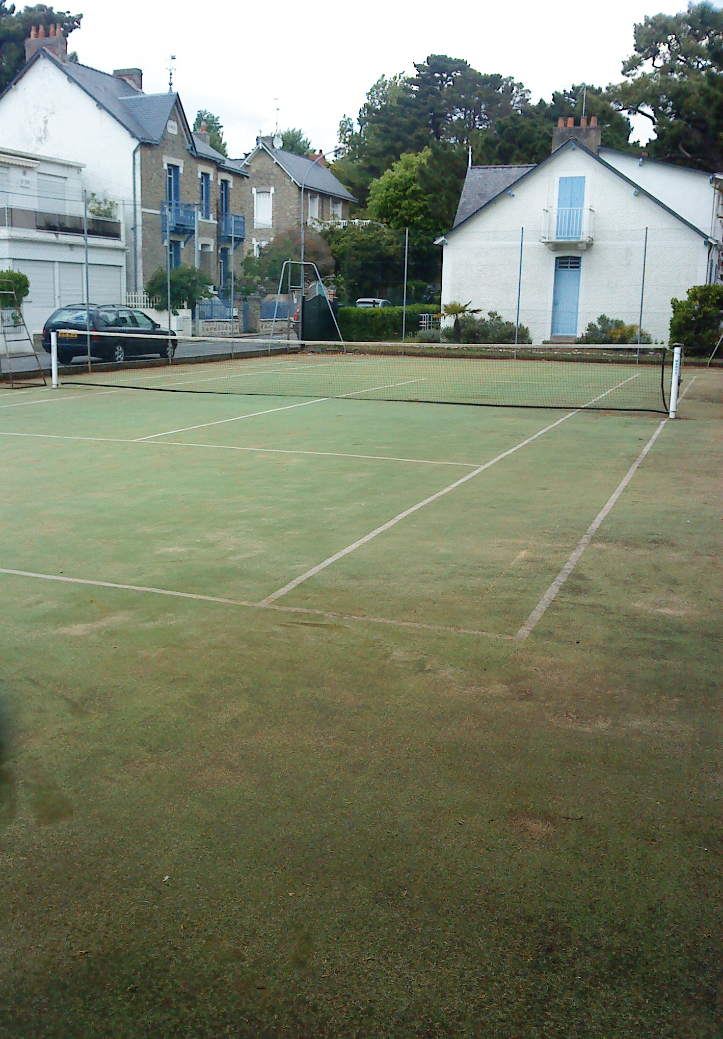 Tennis court on Artificial Grass